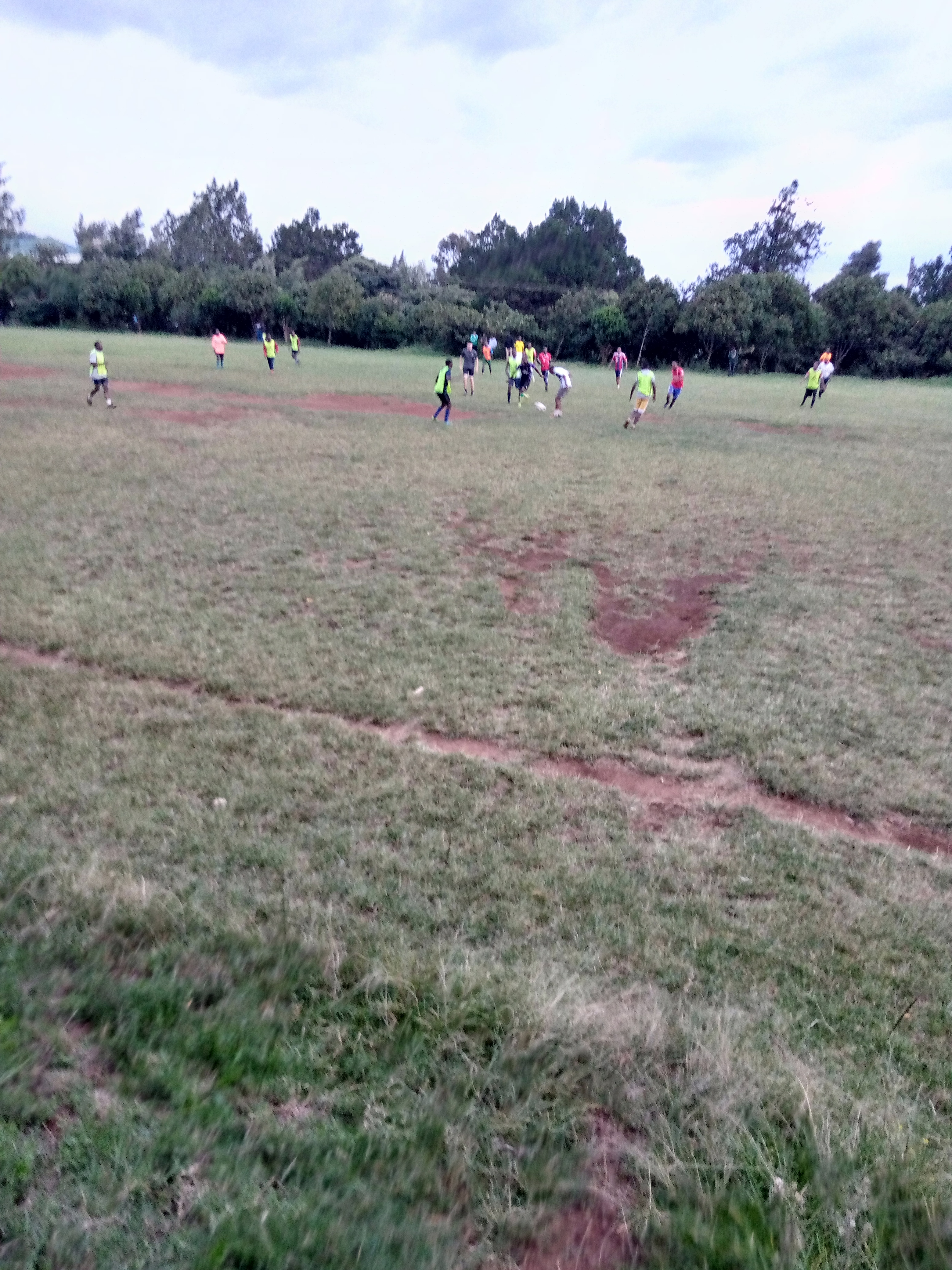 kijabe kenya,a soccer match being played by local youth This is an image with the theme "Africa on the Move or Transport" from: Kenya